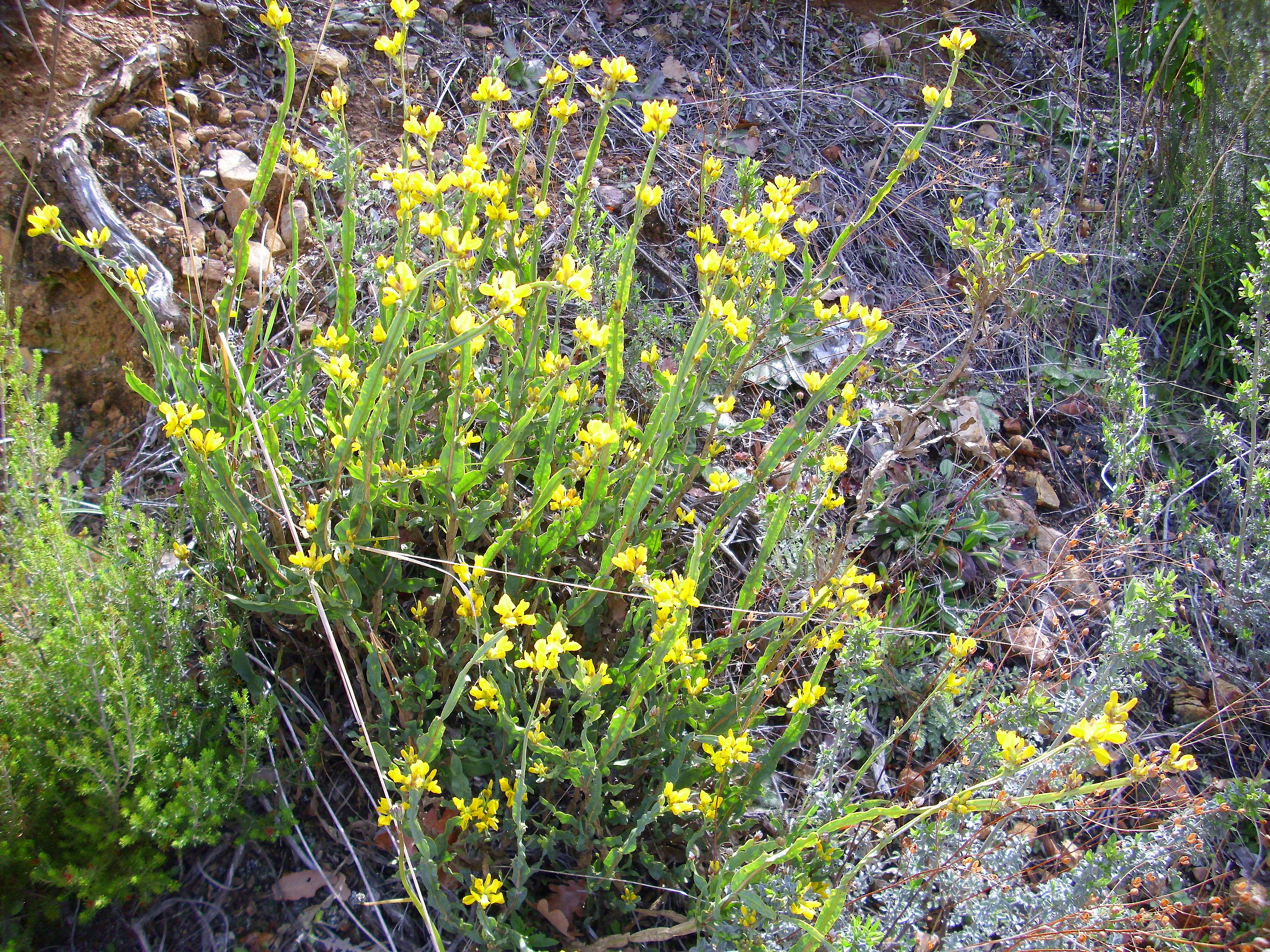 Genista tridentata fruits, Valderrepisa Sierra Madrona, Spain